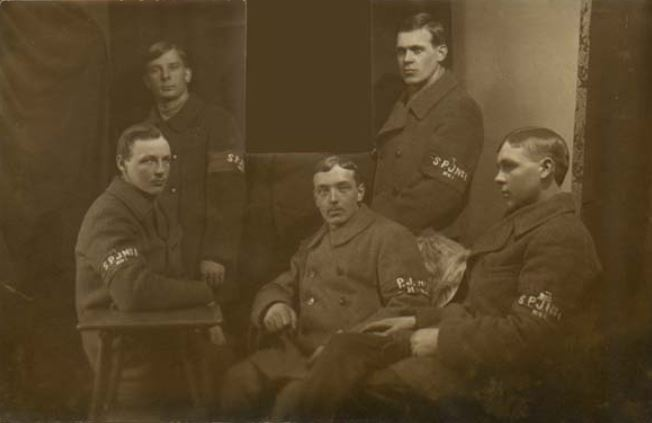 1918 Finish Civil War: Crew of the Red Guard Armoured Train N:o 1.